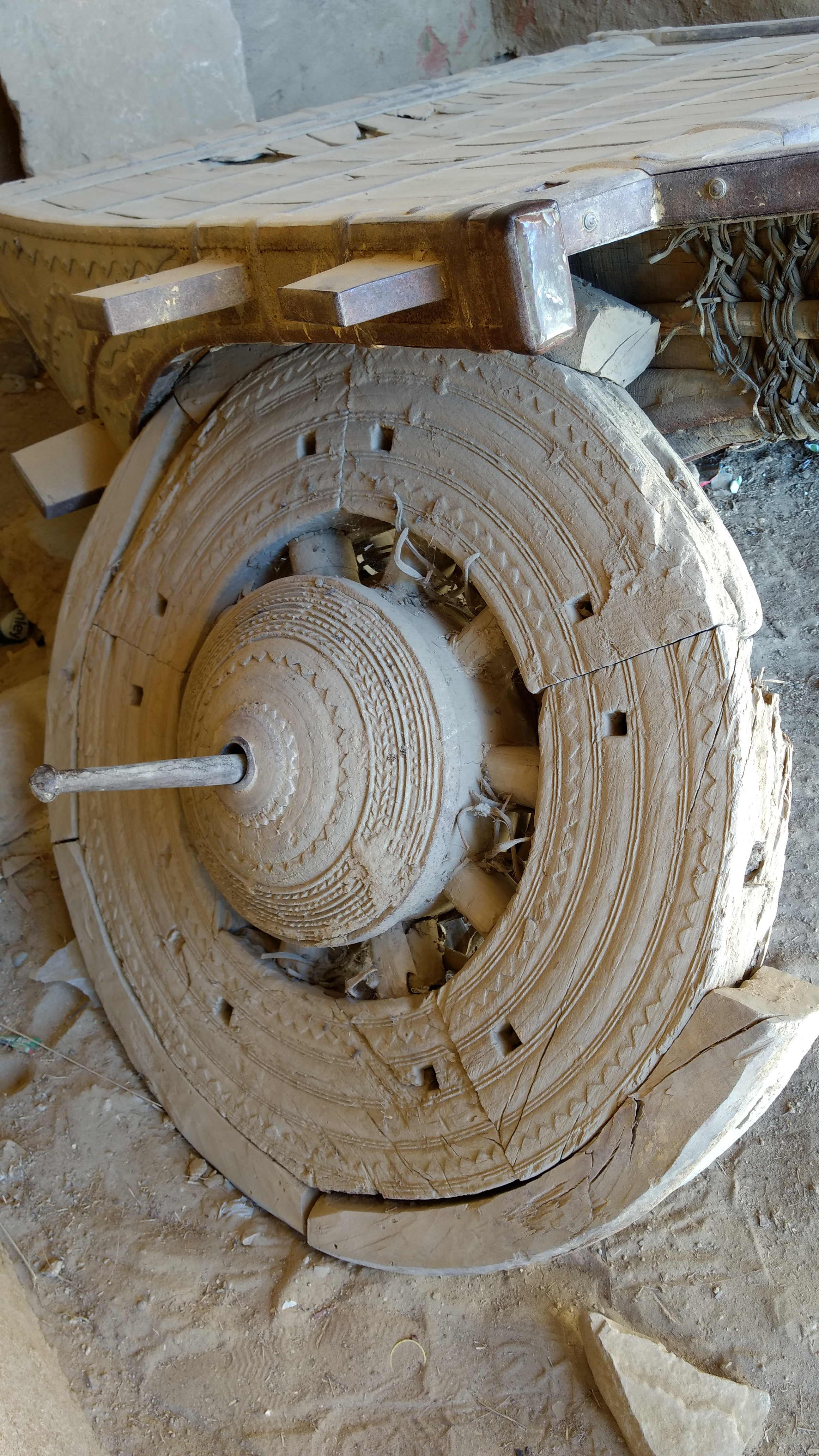 Kuldhara